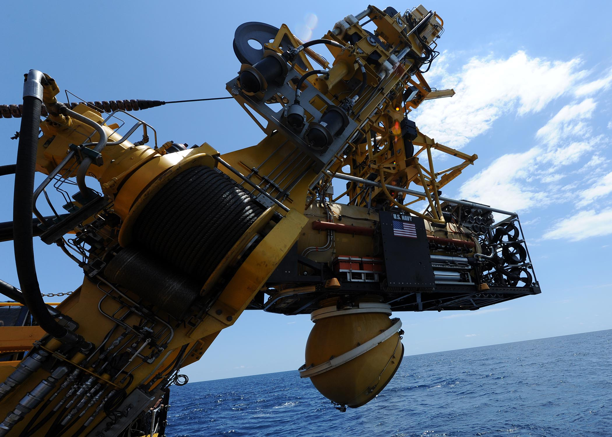 MEDITERRANEAN SEA (June 3, 2011) The U.S. Navy's Deep Submergence Unit releases the U.S. Navy Submarine Rescue Diving and Recompression System's (SRDRS) Pressurized Rescue Module (PRM), Falcon, to mate with the Portuguese navy submarine SSK Tridente (S 70) at a depth of 360 feet during Bold Monarch 2011. Participants and observers from more than 25 countries are taking part in NATO exercise Bold Monarch 2011, the world's largest submarine rescue exercise. This 12-day exercise supports interoperability between all submarine rescue units. (U.S. Navy photo by Chief Mass Communication Specialist Kathryn Whittenberger/Released)